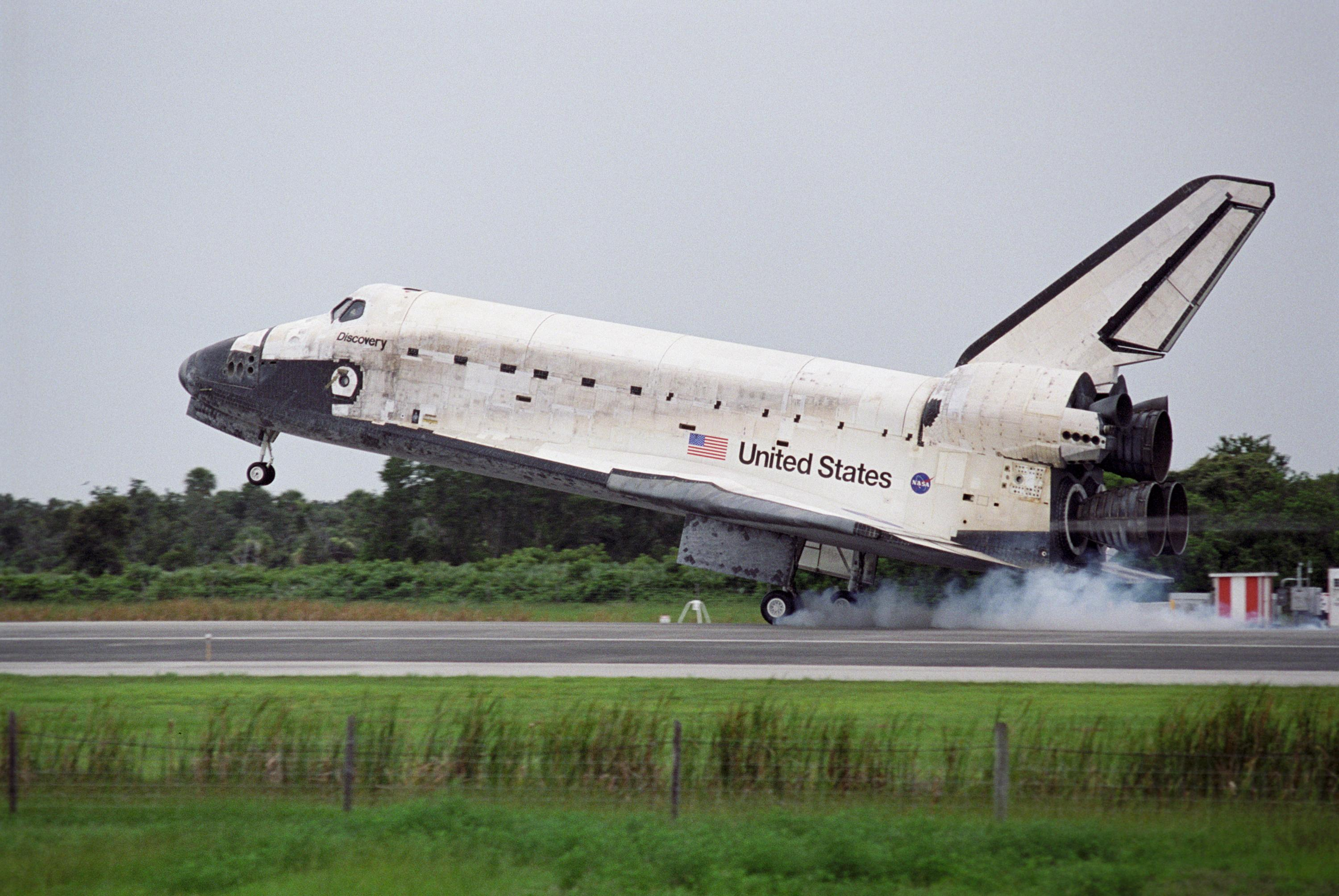 KENNEDY SPACE CENTER, FLA. – The orbiter Discovery approaches touchdown on Runway 15 at NASA's Shuttle Landing Facility, completing mission STS-121 to the International Space Station. Discovery traveled 5.3 million miles, landing on orbit 202. Mission elapsed time was 12 days, 18 hours, 37 minutes and 54 seconds. Main gear touchdown occurred on time at 9:14:43 EDT. Wheel stop was at 9:15:49 EDT. The returning crew members aboard are Commander Steven Lindsey, Pilot Mark Kelly and Mission Specialists Piers Sellers, Michael Fossum, Lisa Nowak and Stephanie Wilson. Mission Specialist Thomas Reiter, who launched with the crew on July 4, remained on the station to join the Expedition 13 crew there. The landing is the 62nd at Kennedy Space Center and the 32nd for Discovery. During the mission, the STS-121 crew tested new equipment and procedures to improve shuttle safety, and delivered supplies and made repairs to the International Space Station.